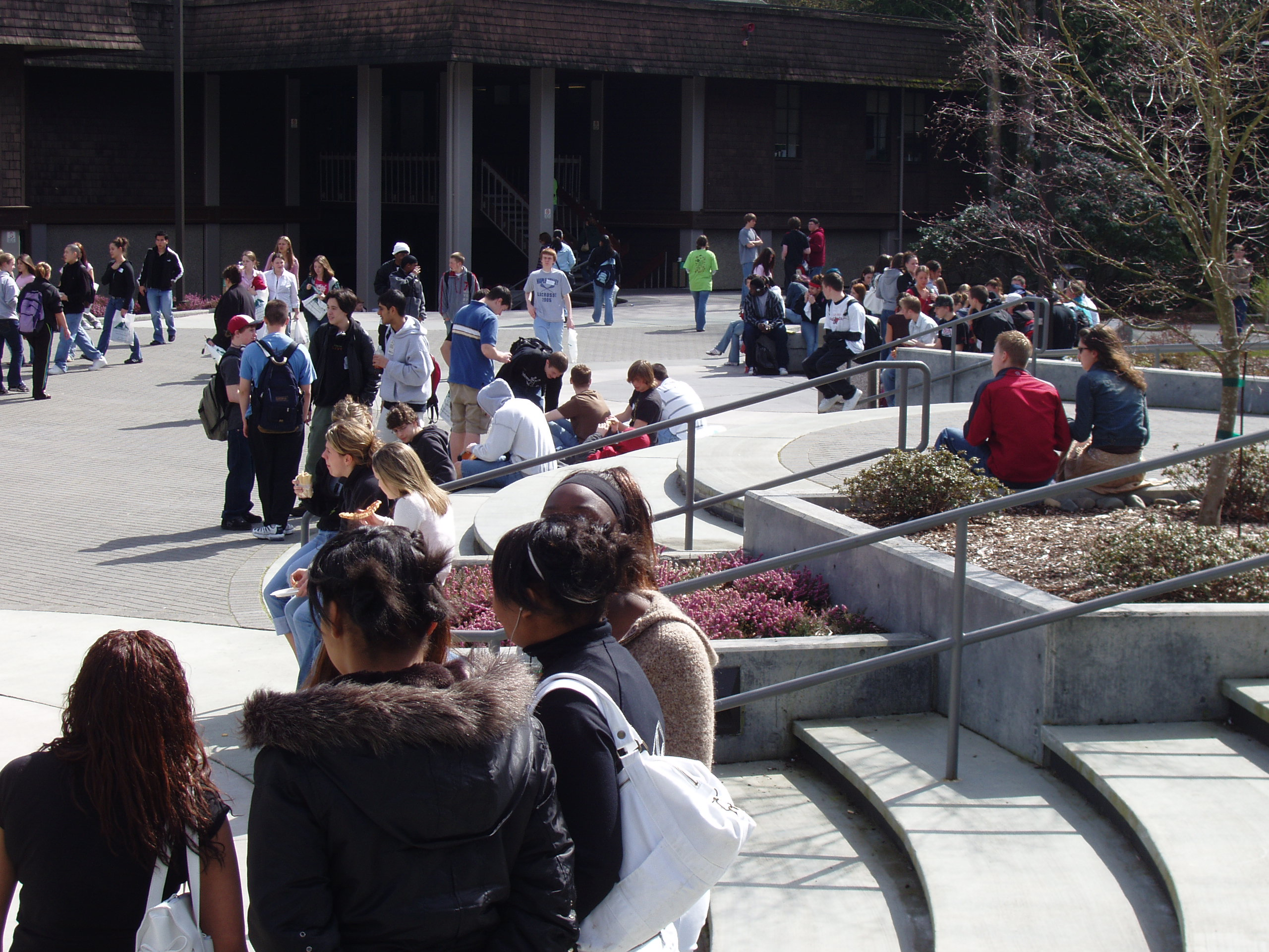 Green River Community College is one of the most beautiful and unique community college campuses in the state. Students enjoy spending time in the Kennelly Commons, which is located between the Lindbloom Student Center and the Bleha Center for the Performing Arts.